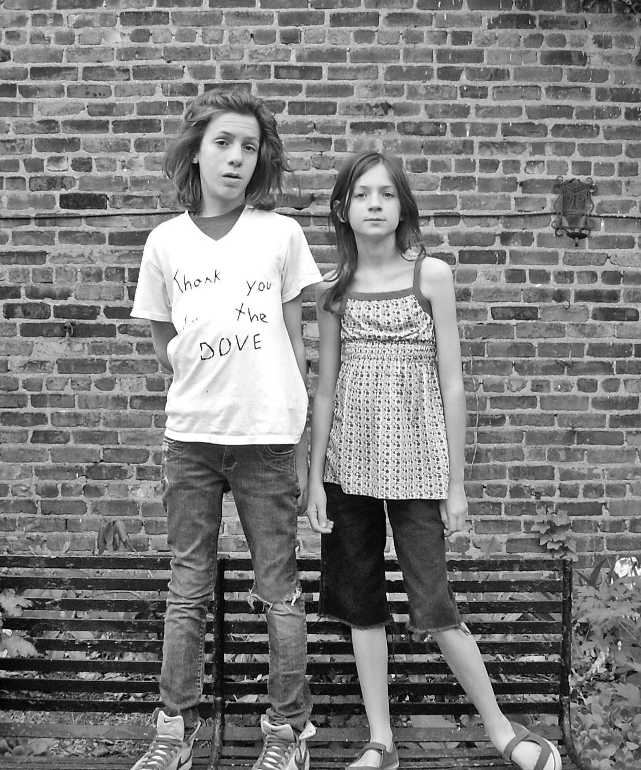 Tiny Masters of Today an American indie punk rock band, consisting of sibling duo Ivan, and Ada from Brooklyn